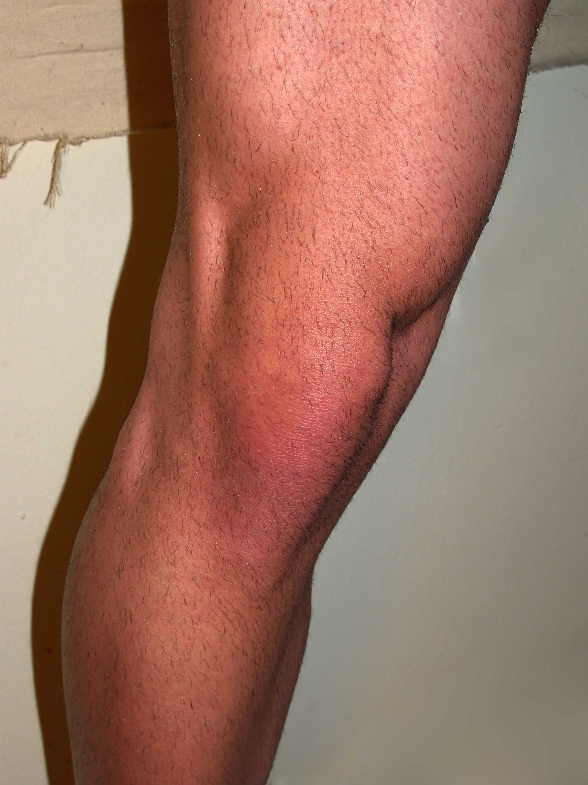 Male knee by David Shankbone